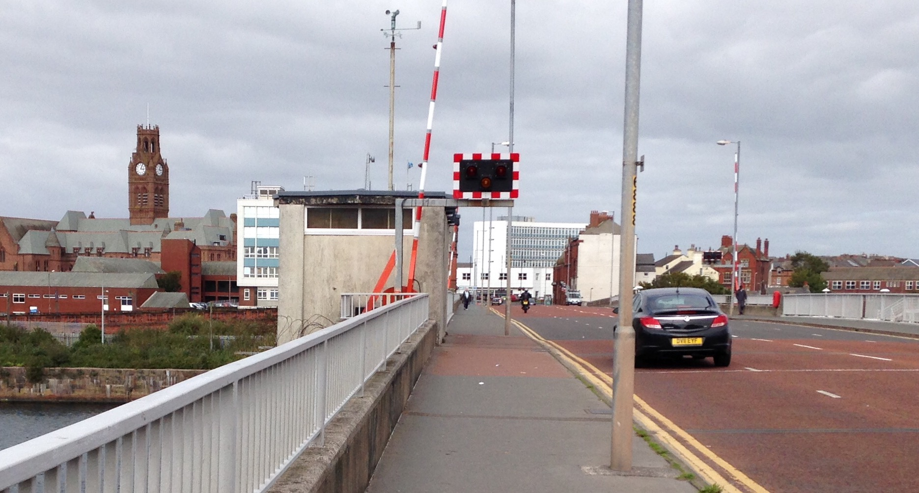 Michaelson Road Bridge, Barrow-in-Furness in September 2014.